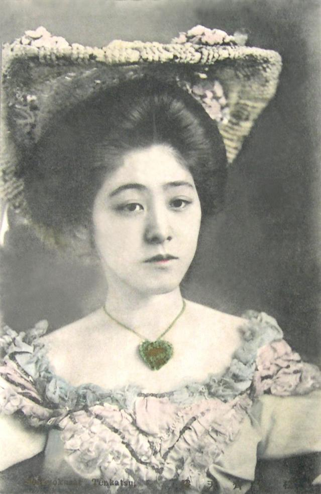 Postcard portrait of Japanese magician Shokyokusai Tenkatsu (1886-1944) 松旭斎天勝（奇術師）。